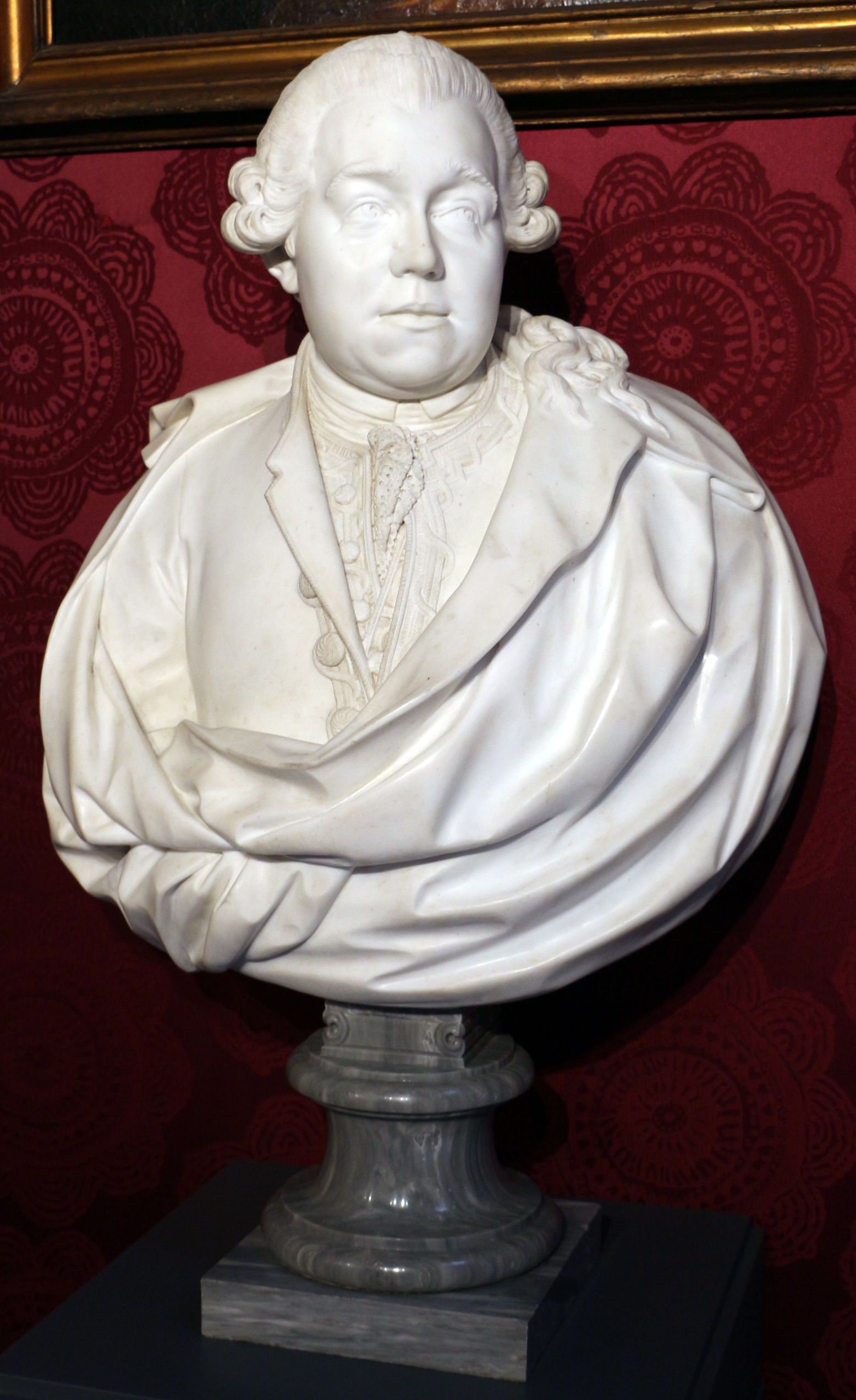 Il Tesoro d'Italia (exhibition at Expo 2015)